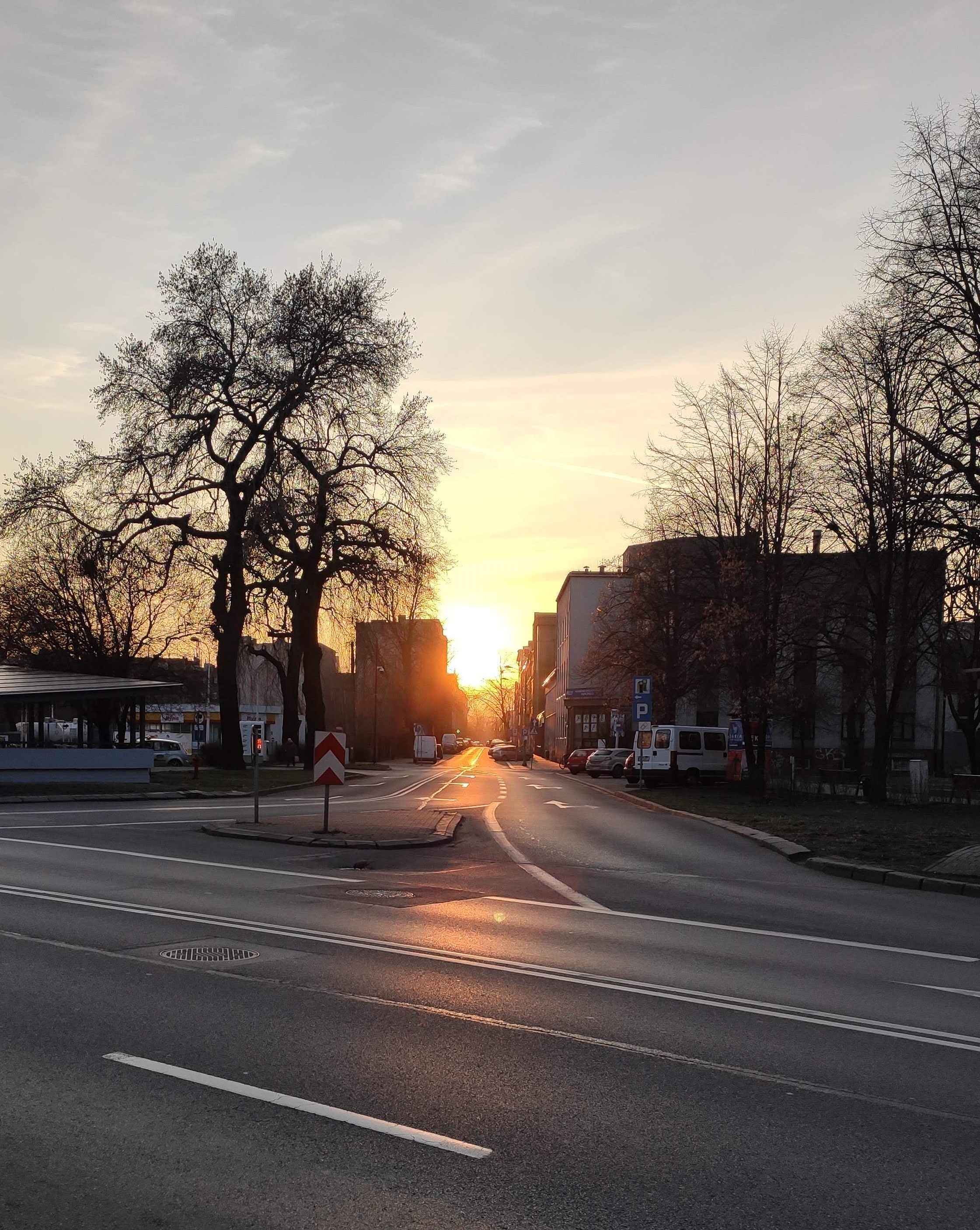 Raciborska Street in Katowice, Poland